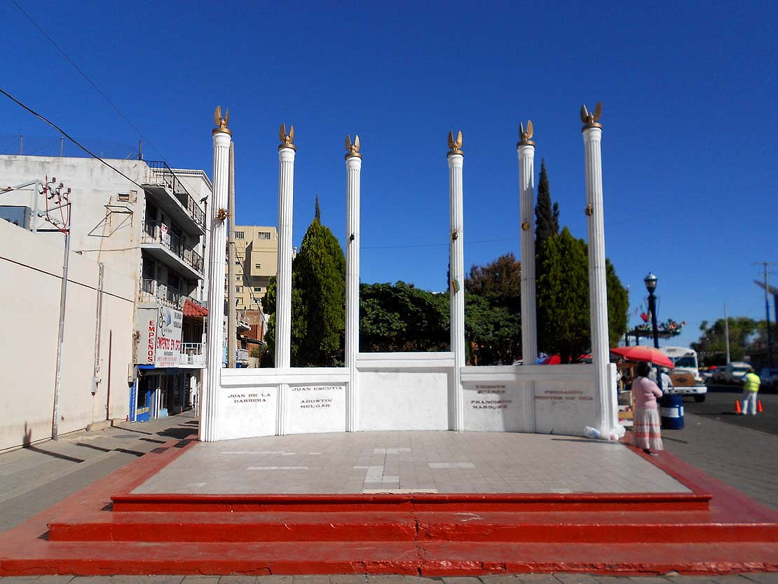 Ninos Heroes monument in Nogales, Mexico.